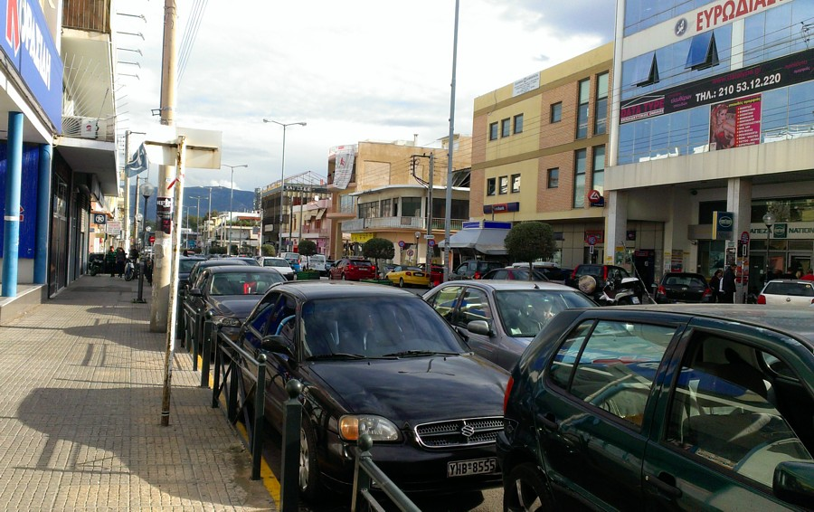 iera-odos